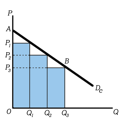 Graph - 2nd price discrimination